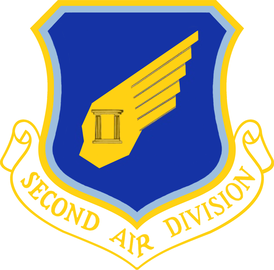 United States Air Force 2d Air Division emblem. Made with Photoshop.